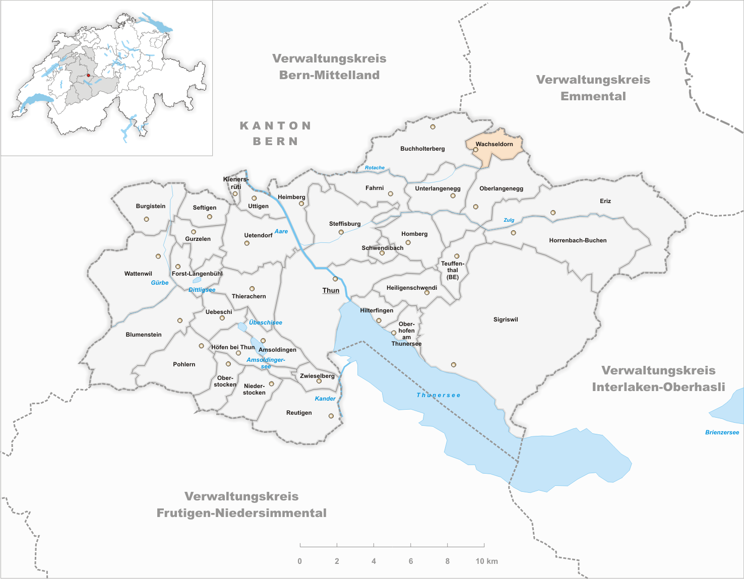 Municipality Wachseldorn